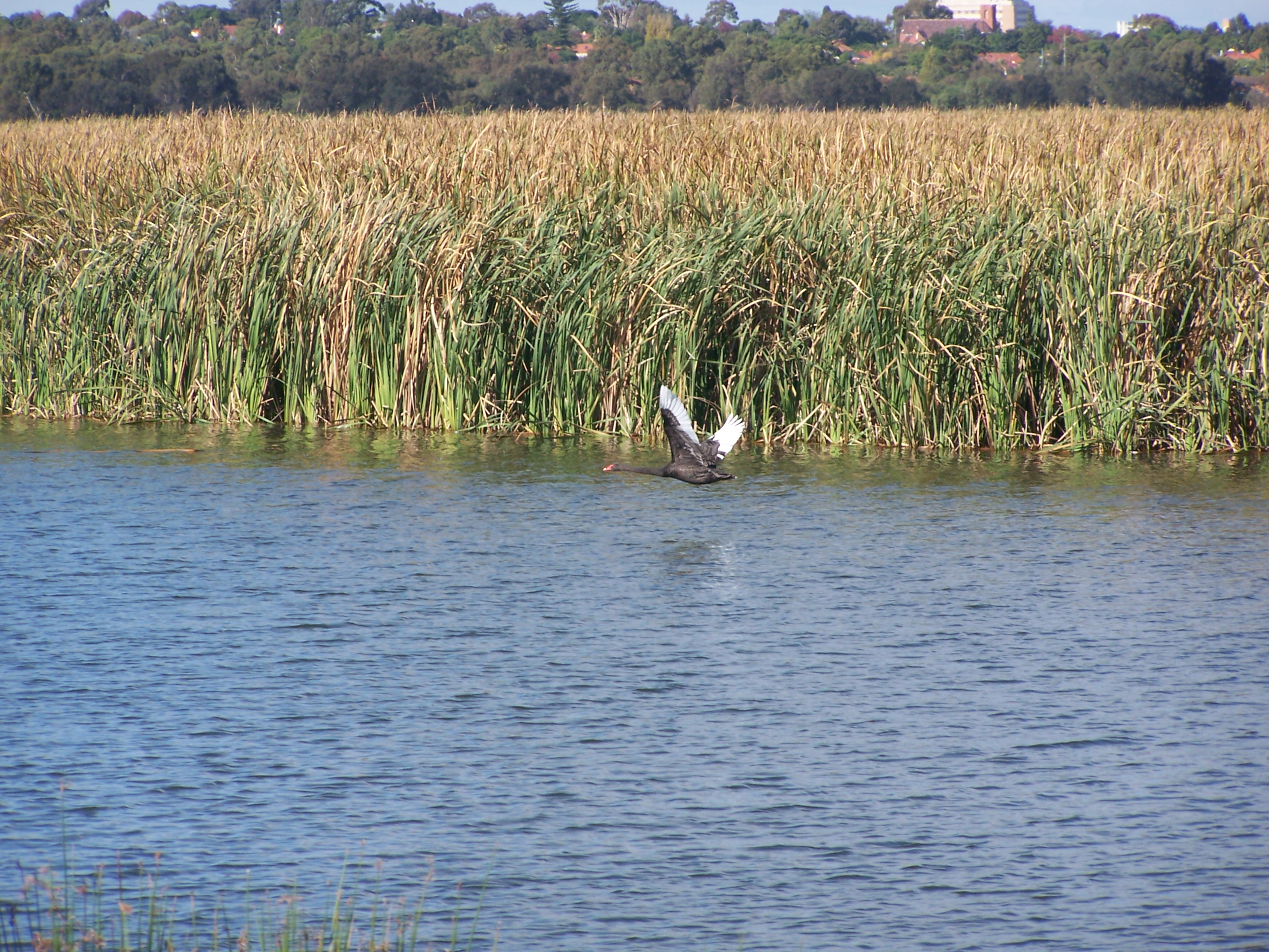 Black Swan, Cygnus atratus in flight at Herdsman Lake Western Australia